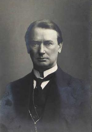 Danish businessman and politician, MP Villads Emanuel Gamborg (1865-1929)